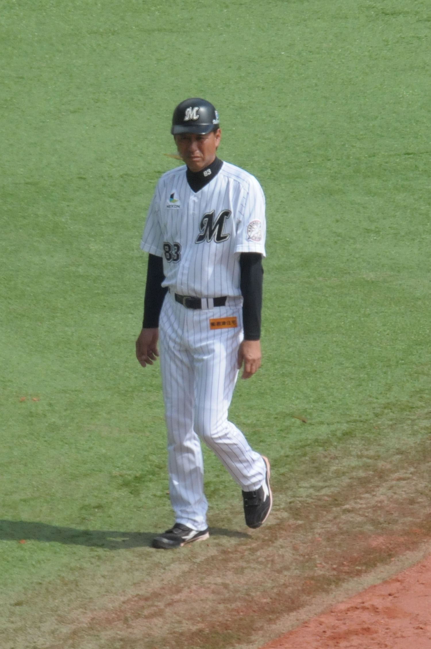 Ken'ichi Sato, coach of the Chiba Lotte Marines, at QVC Marine Field.